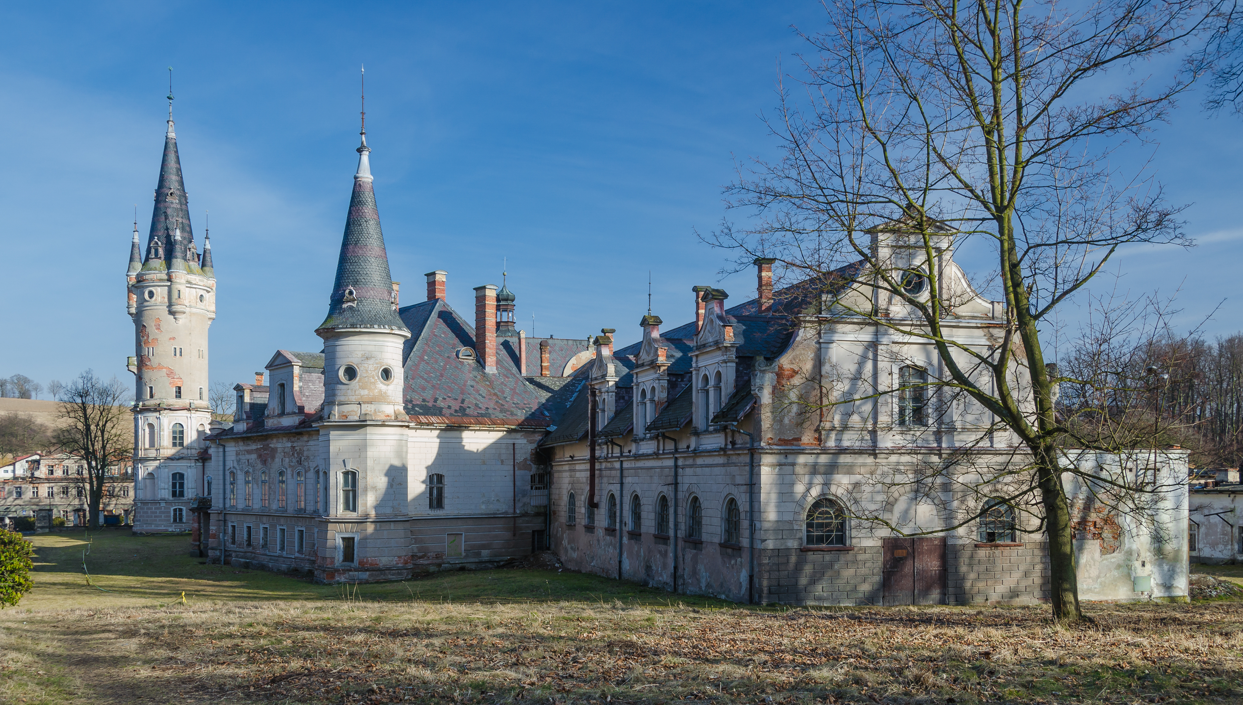 Palace in Bożków